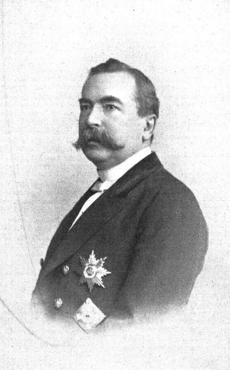 Alfred Schultz (1840-1904)